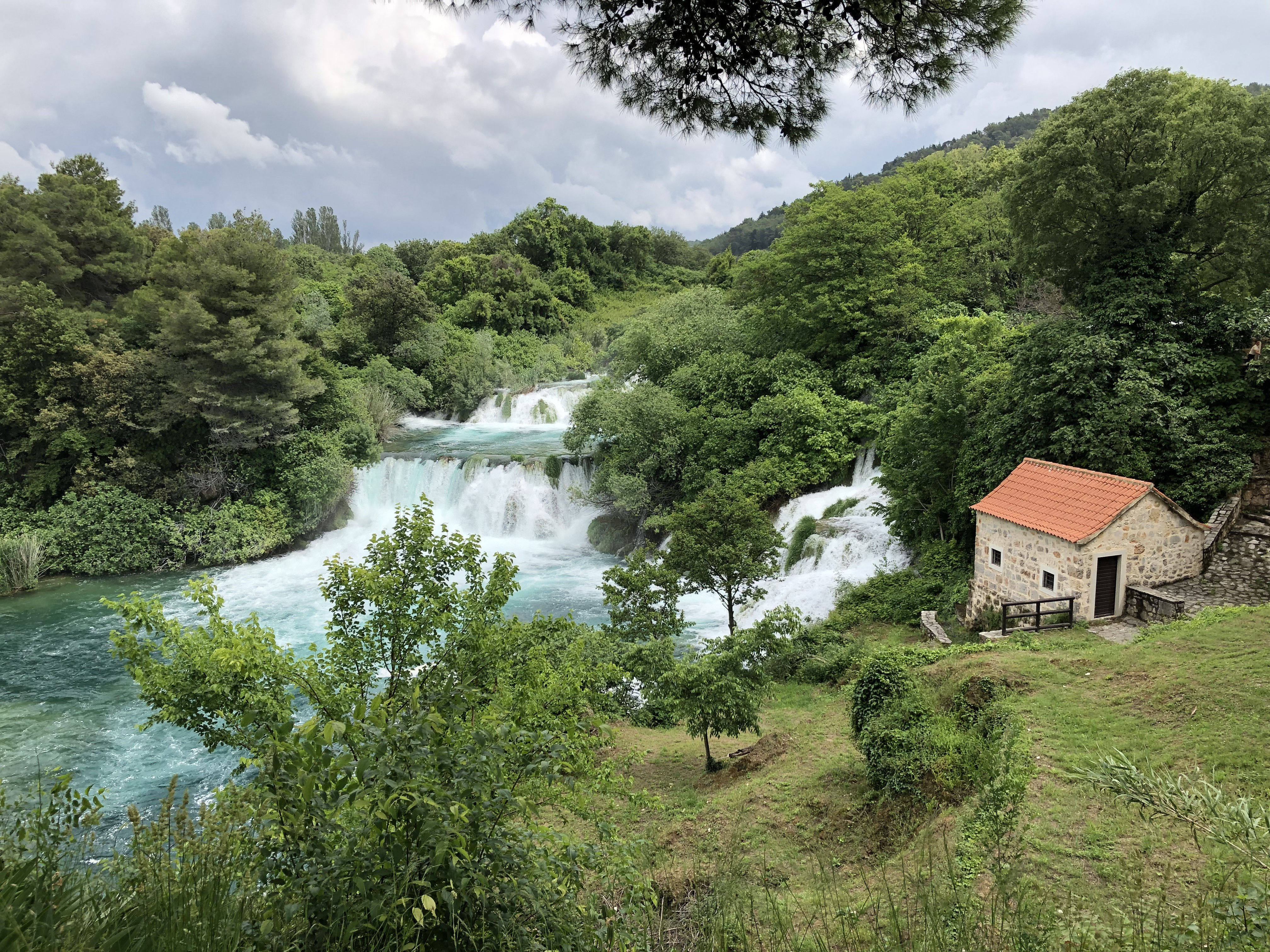 House next to a river in Plitvička Jezera